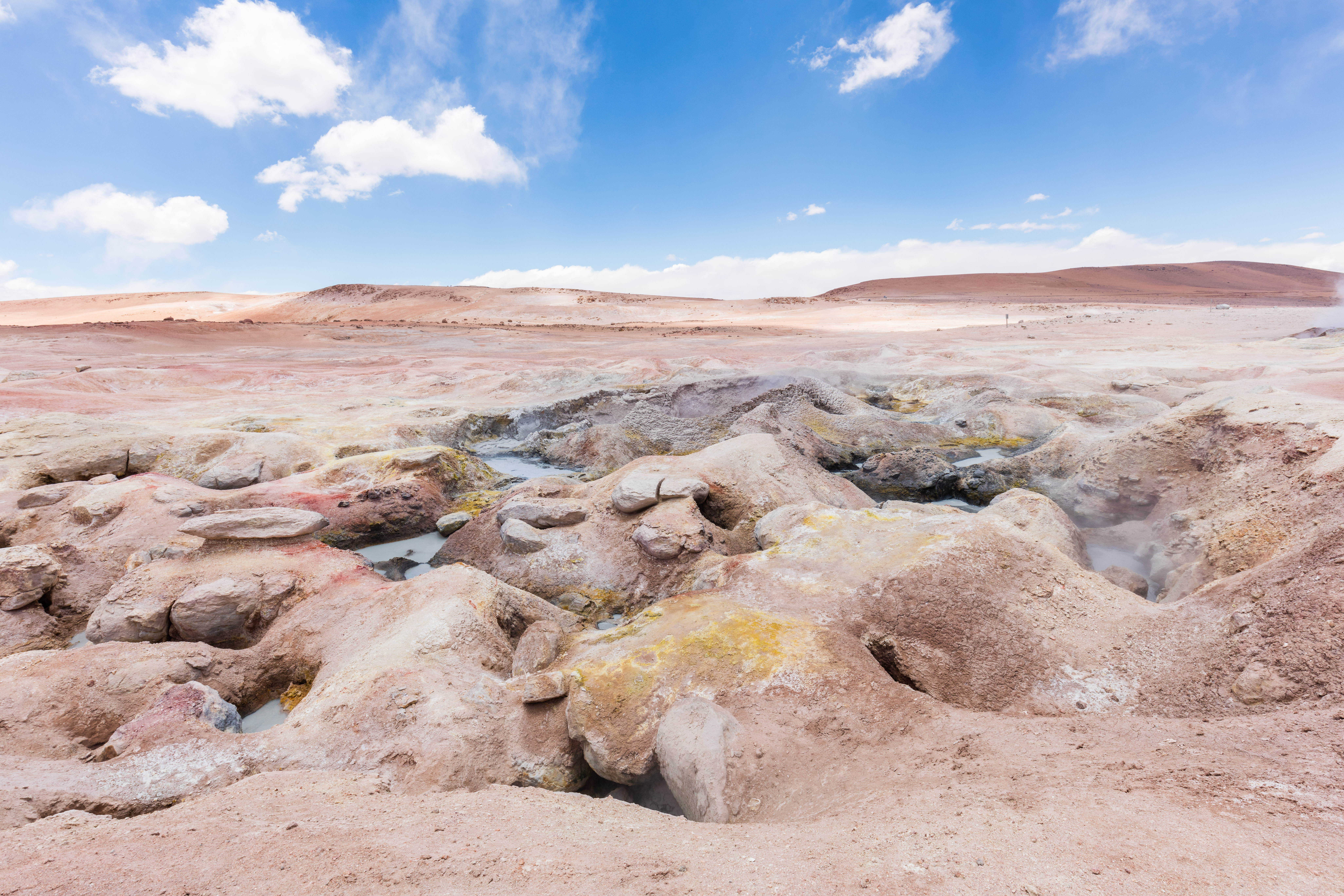 Sol de Mañana (Morning Sun in Spanish) is a geothermal field in Sur Lípez Province, Potosi Department, southwestern Bolivia. The field extends over 10 square kilometres (2,500 acres) and is between 4,800 metres (15,700 ft) and 5,000 metres (16,000 ft) high. The area, characterized by intense volcanic activity, with sulphur spring fields and mud lakes, has indeed no geysers but rather holes that emit pressurized steam up to 50 metres (160 ft) high.